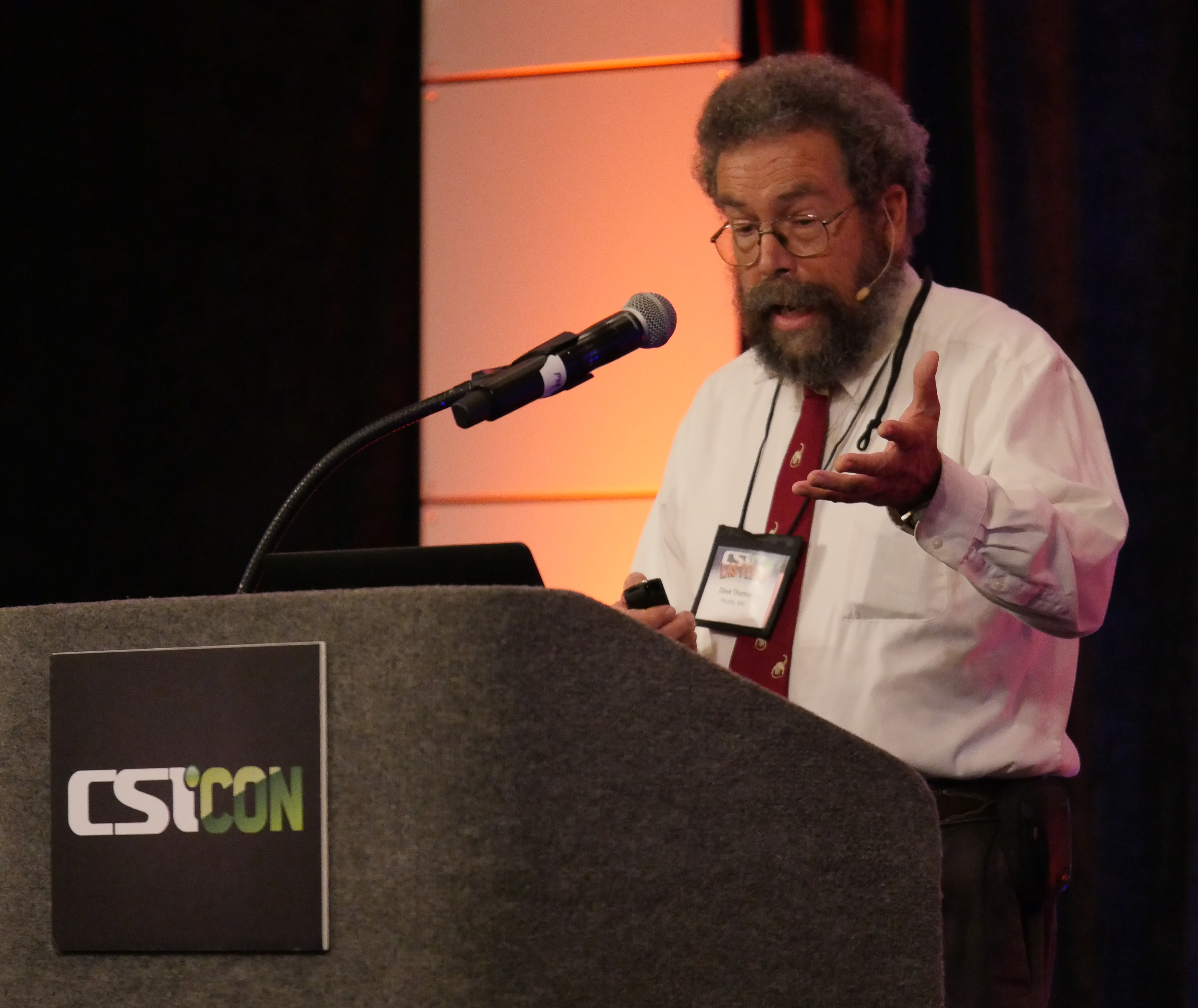 David E. Thomas War of the Weasels An Update on Creationist Attacks on Genetic Algorithms CSICon 2016